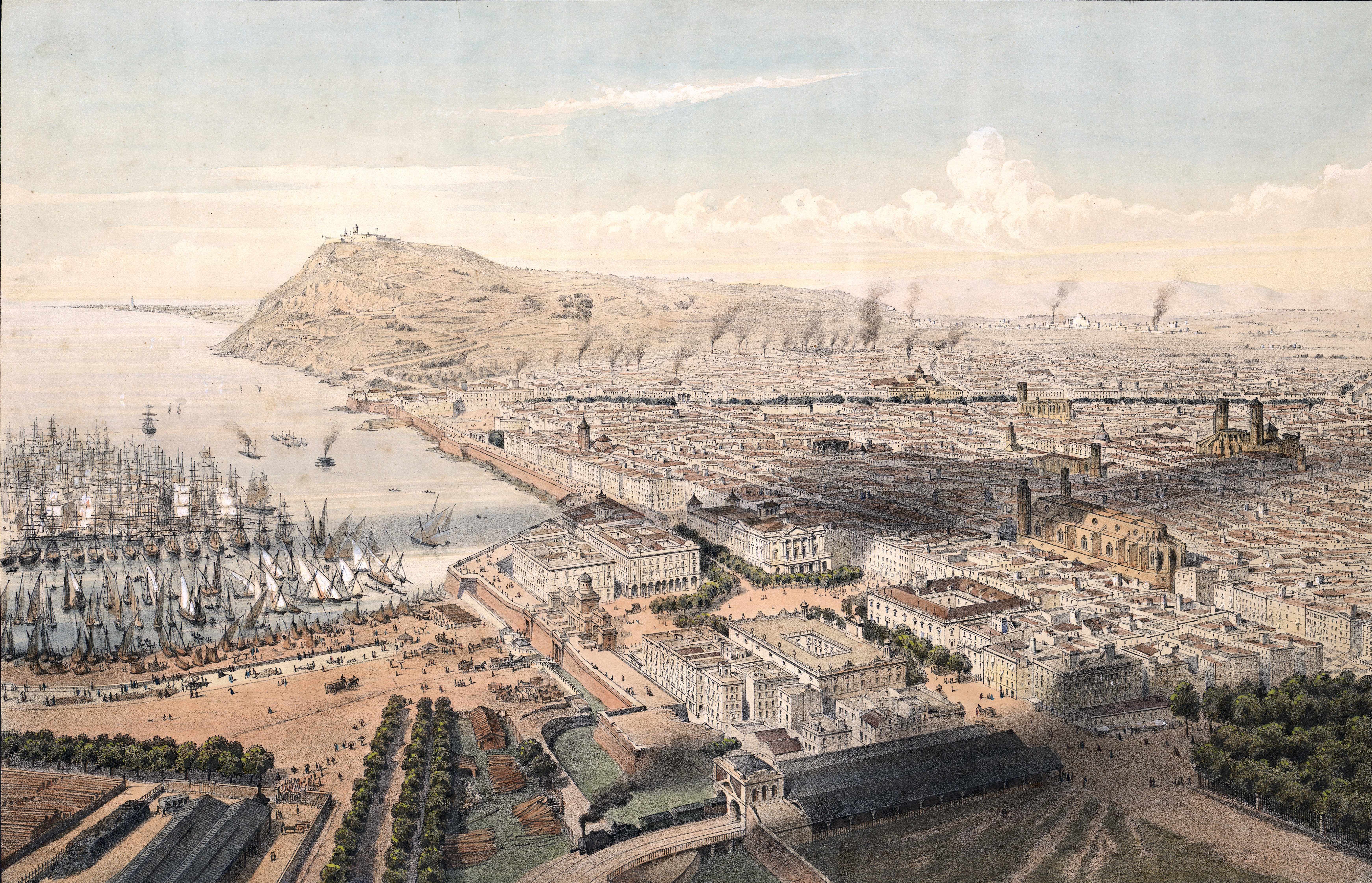 Barcelona in 1850, engraving by Alfred Guesdon.